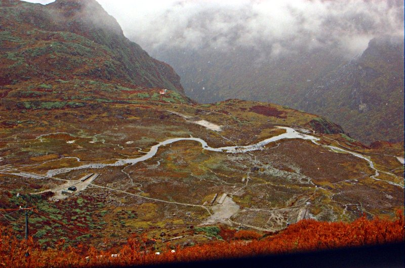 The of Nathu La